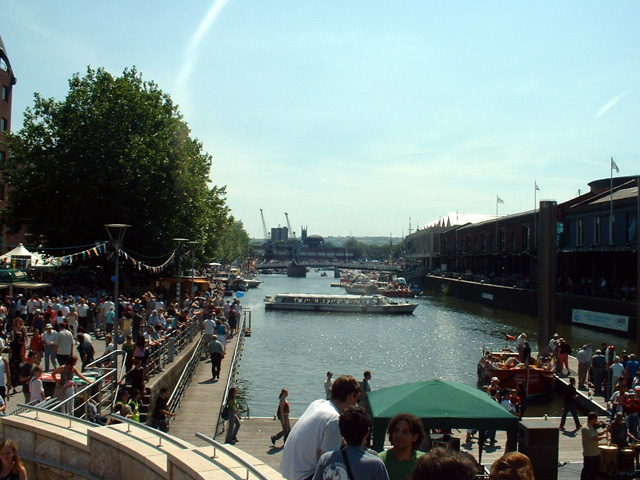 St Augustine's reach in Bristol Docks, taken during the Harbour Festival.